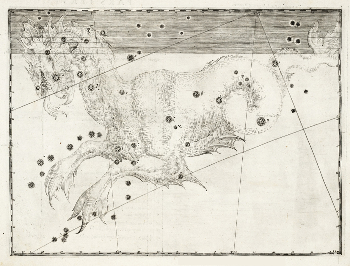 stellar chart, fol. 34 verso, in Uranometria: omnium asterismorum continens schemata, no a methodo delineata, aereis laminis expressa written by Johann Bayer (one of 51 charts)